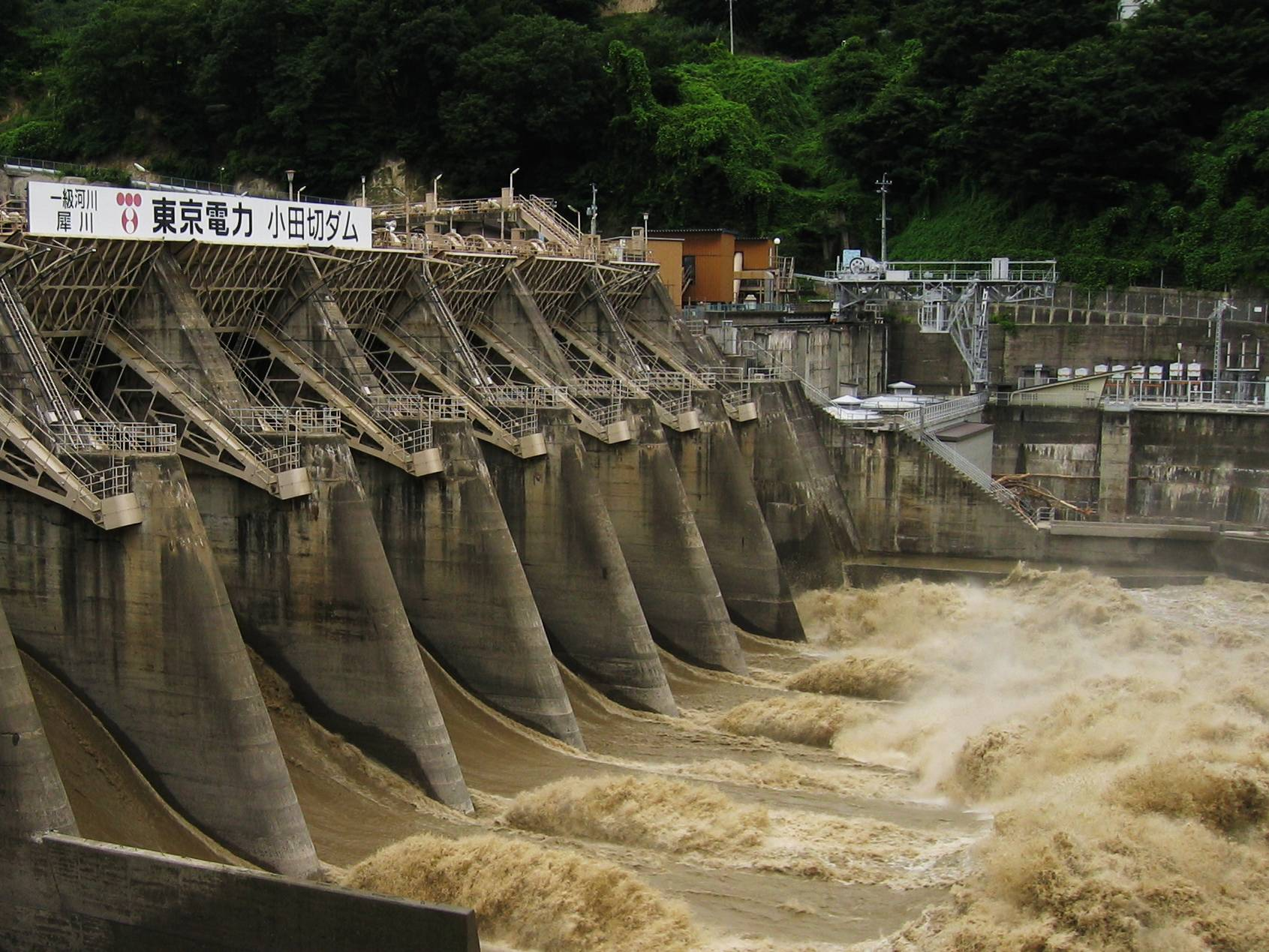 Odagiri Dam free-flow.